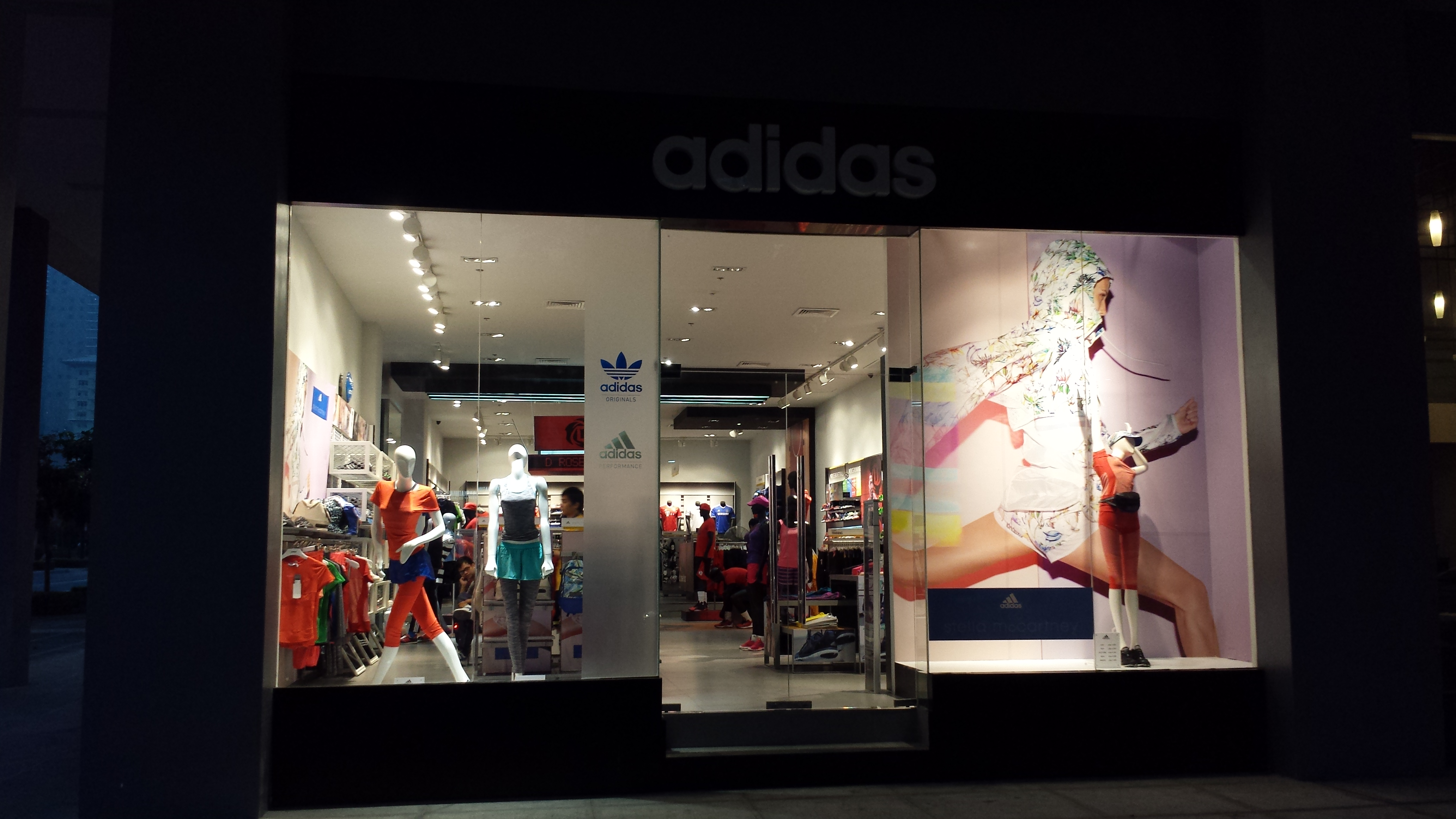 Adidas at 30th Street corner 7th Avenue in Bonifacio Global City, Metro Manila, Philippines